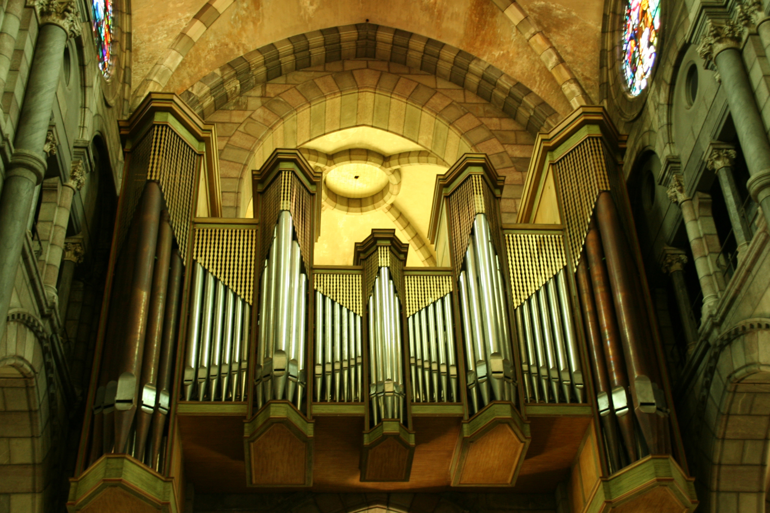 Pipe Organ in the Cathedral of Gap, France. Photographed by Niels Bosboom in July 2005.